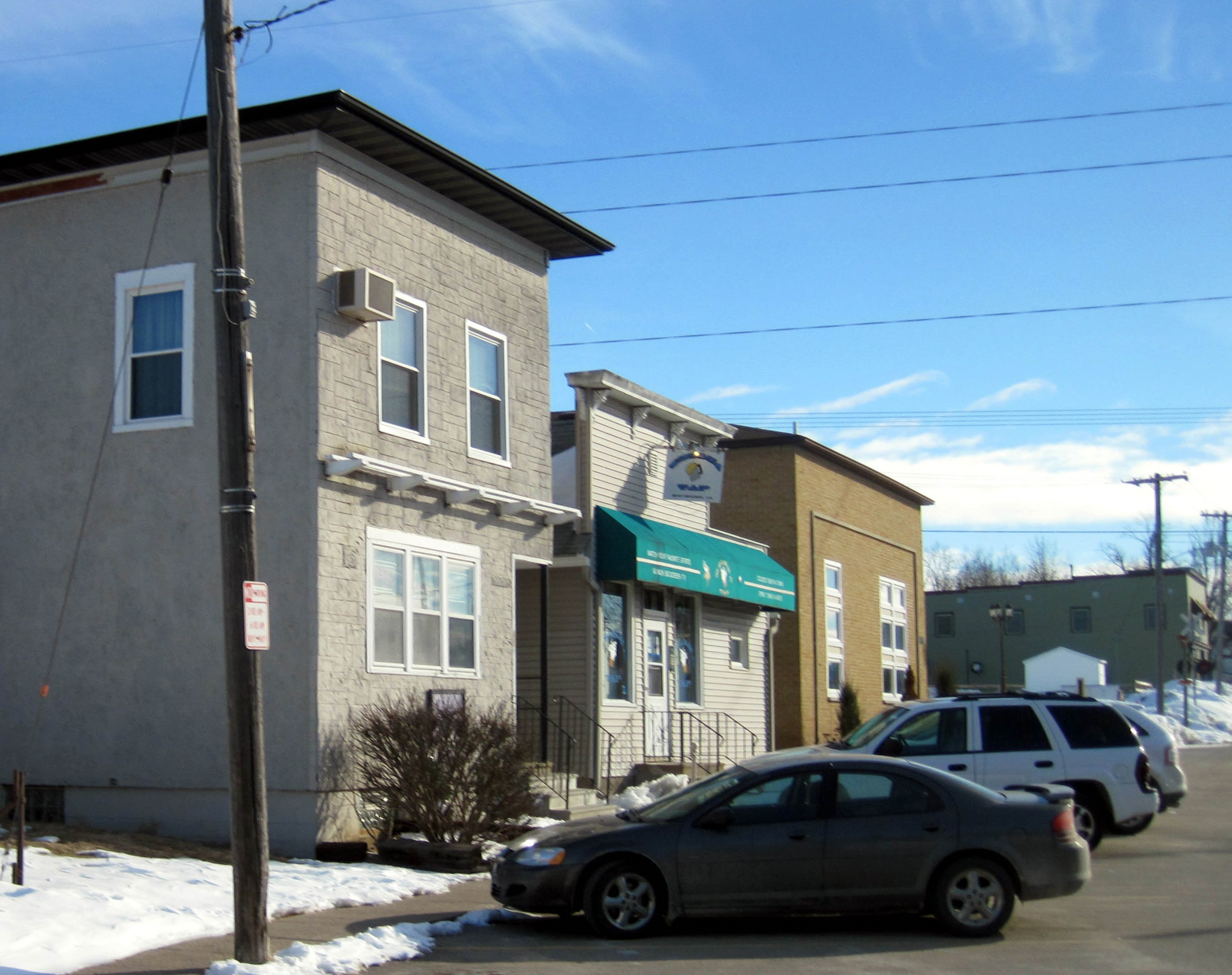 Swisher. Bill Whittaker (talk) 00:46, 28 February 2010 (UTC)